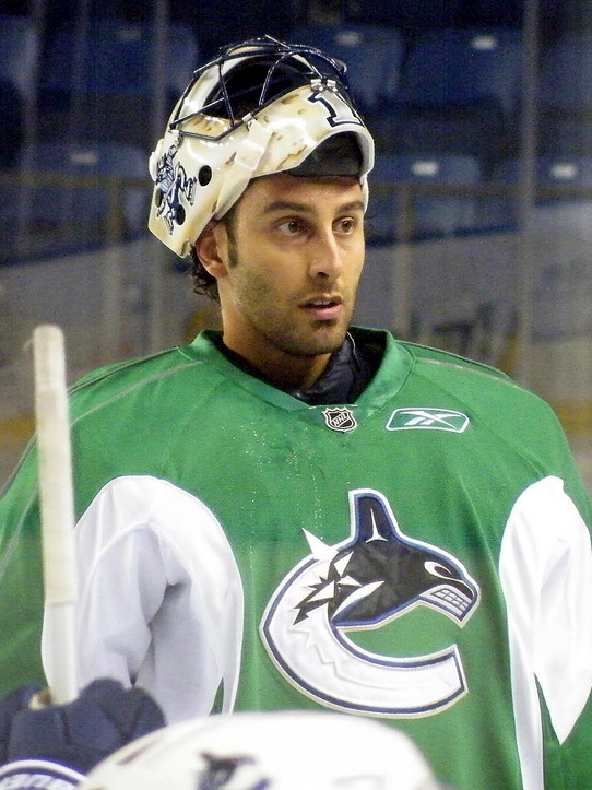 Vancouver Canucks goaltender Roberto Luongo during training camp in 2009.